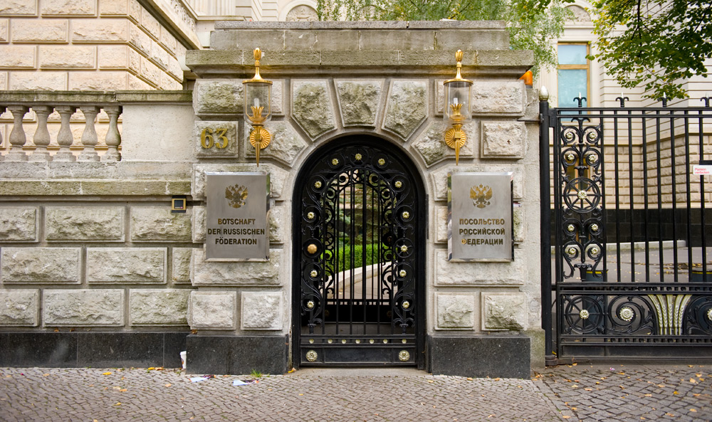 Embassy of the Russian Federation in Berlin, Unter den Linden 63-65, 10117 Berlin